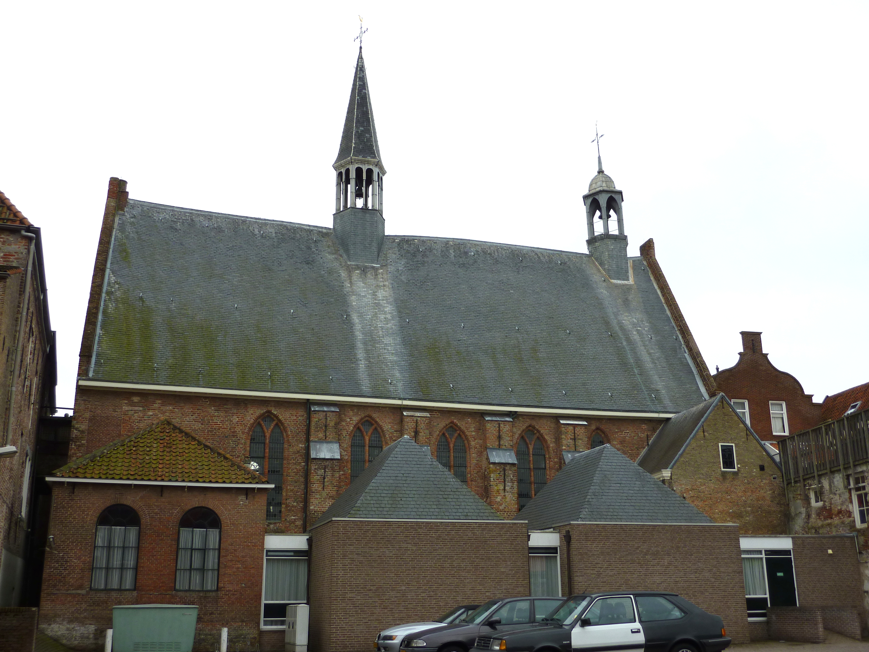 Gasthuiskerk (Zierikzee)